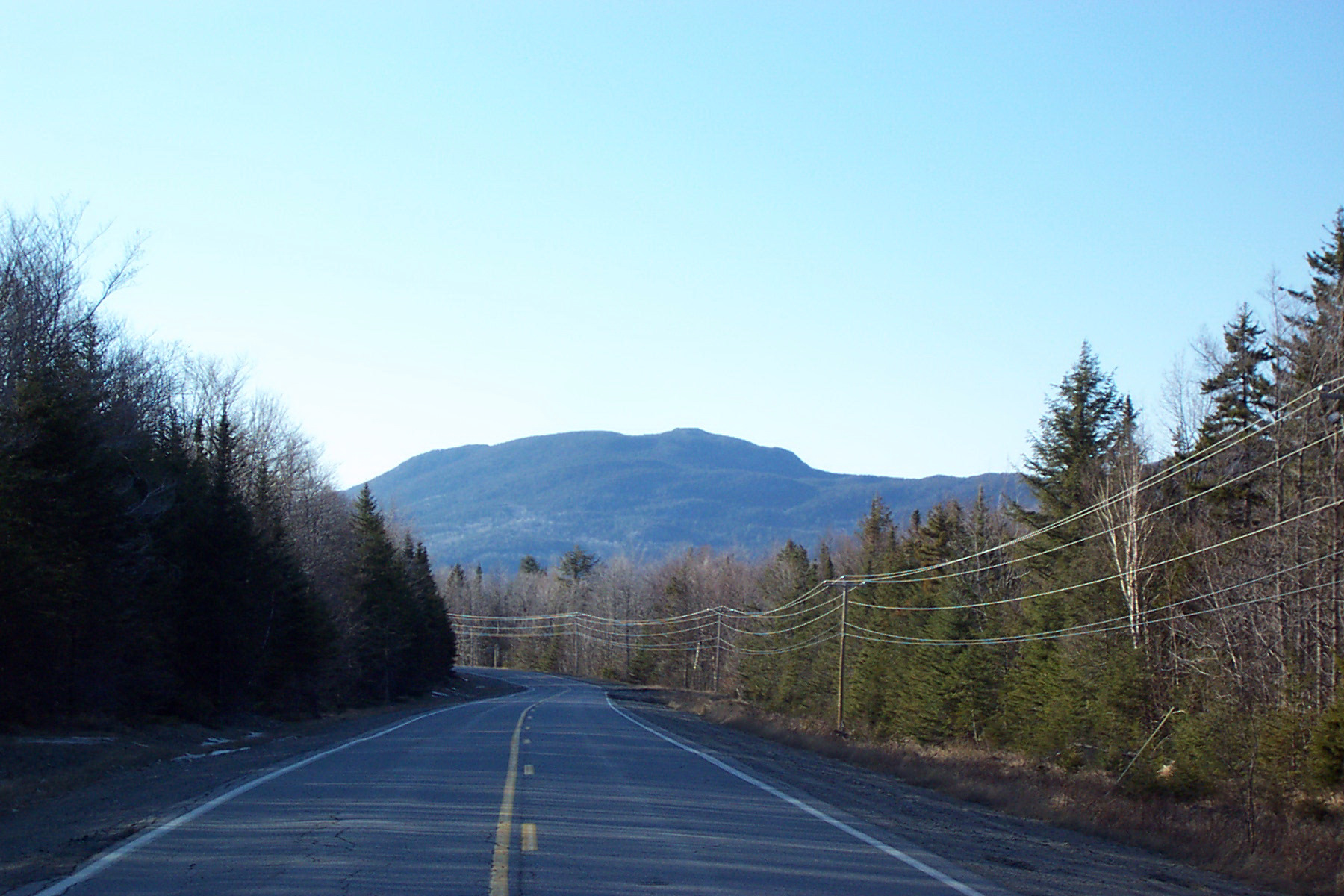 Cranberry Peak (of Bigelow Mountain) seen from Maine State Routes 16 and 27 in Carrabassett Valley